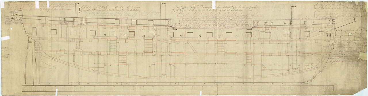 'Leda' (1800); 'Shannon' (1806); 'Leonidas' (1807); 'Surprise' (1812); 'Lacedemonian' (1812); 'Tenedos' (1812); 'Lively' (1804); 'Trinocomalee' (1817); 'Amphitrite' (1816); 'Briton' (1812) Scale: 1:48. Plan showing the inboard profile for 'Leda' (1800), and later for 'Shannon' (1806), 'Leonidas' (1807), 'Surprise' (1812), 'Lacedemonian' (1812), 'Tenedos' (1812), 'Lively' (1804), 'Trinocomalee' (1817), 'Amphitrite' (1816), and 'Briton' (1812), all 38-gun fifth Rate, Frigates. LEDA 1800